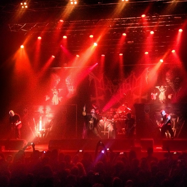 Mayhem performing live at Incubate Festival in Tilburg (Netherlands) in 2013.